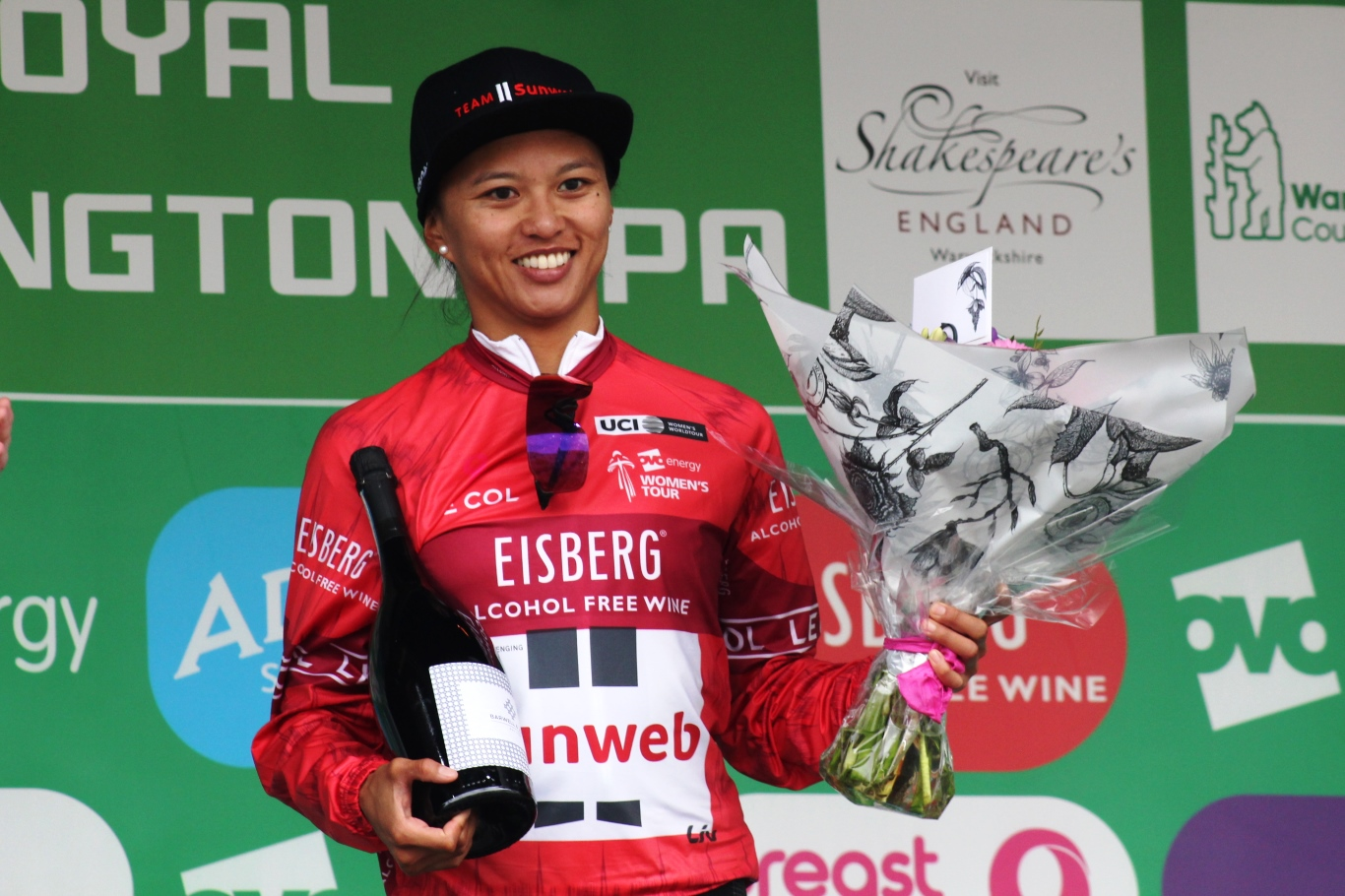 Coryn Rivera on the podium at Royal Leamington Spa at the end of stage 3 of the 2018 Women's Tour wearing the Eisberg sprints jersey.